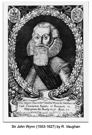 Sir John Wynn (1553 - 1627) by R. Vaughan